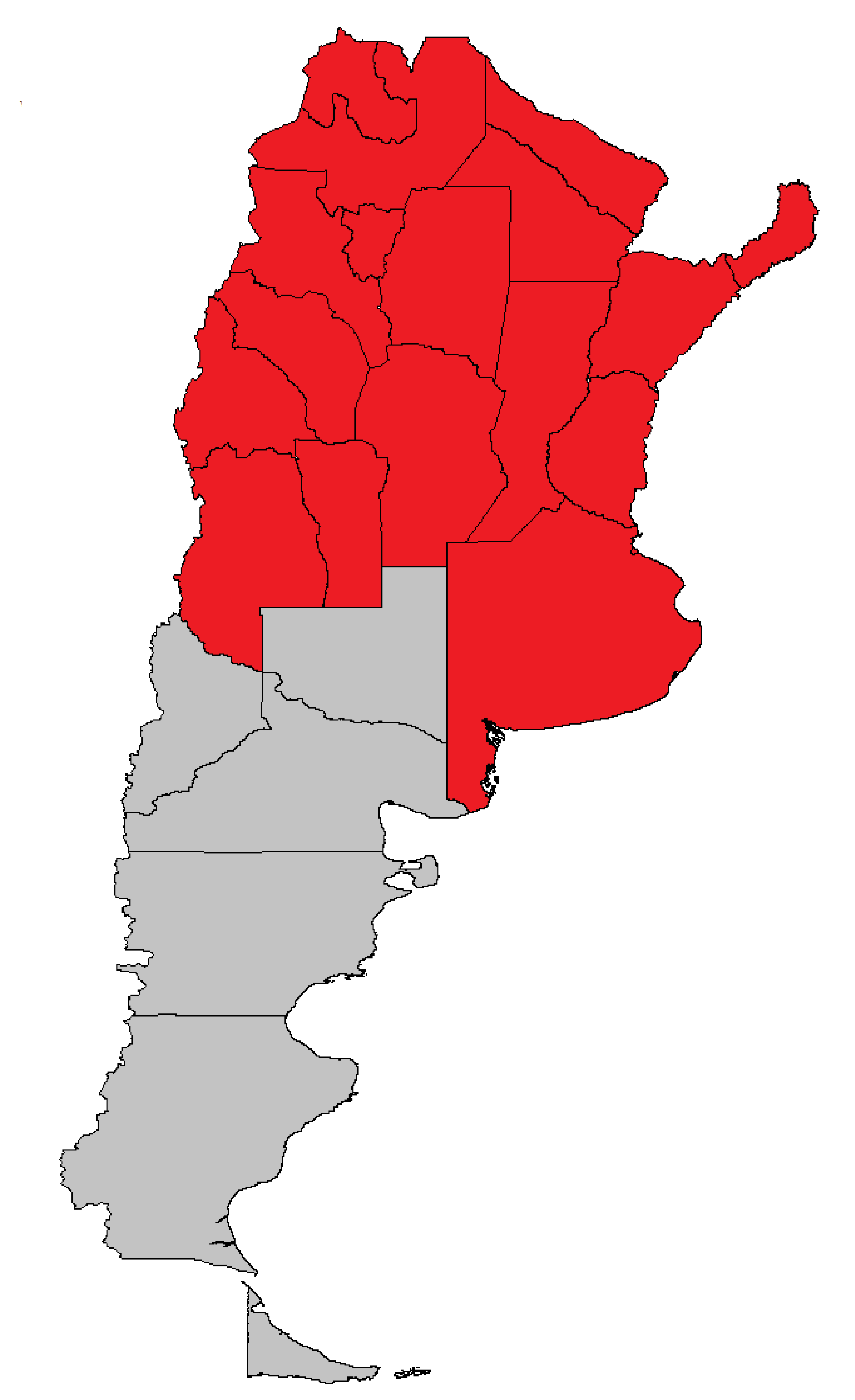 Dengue epidemic 2019-2020 in the Argentine Republic